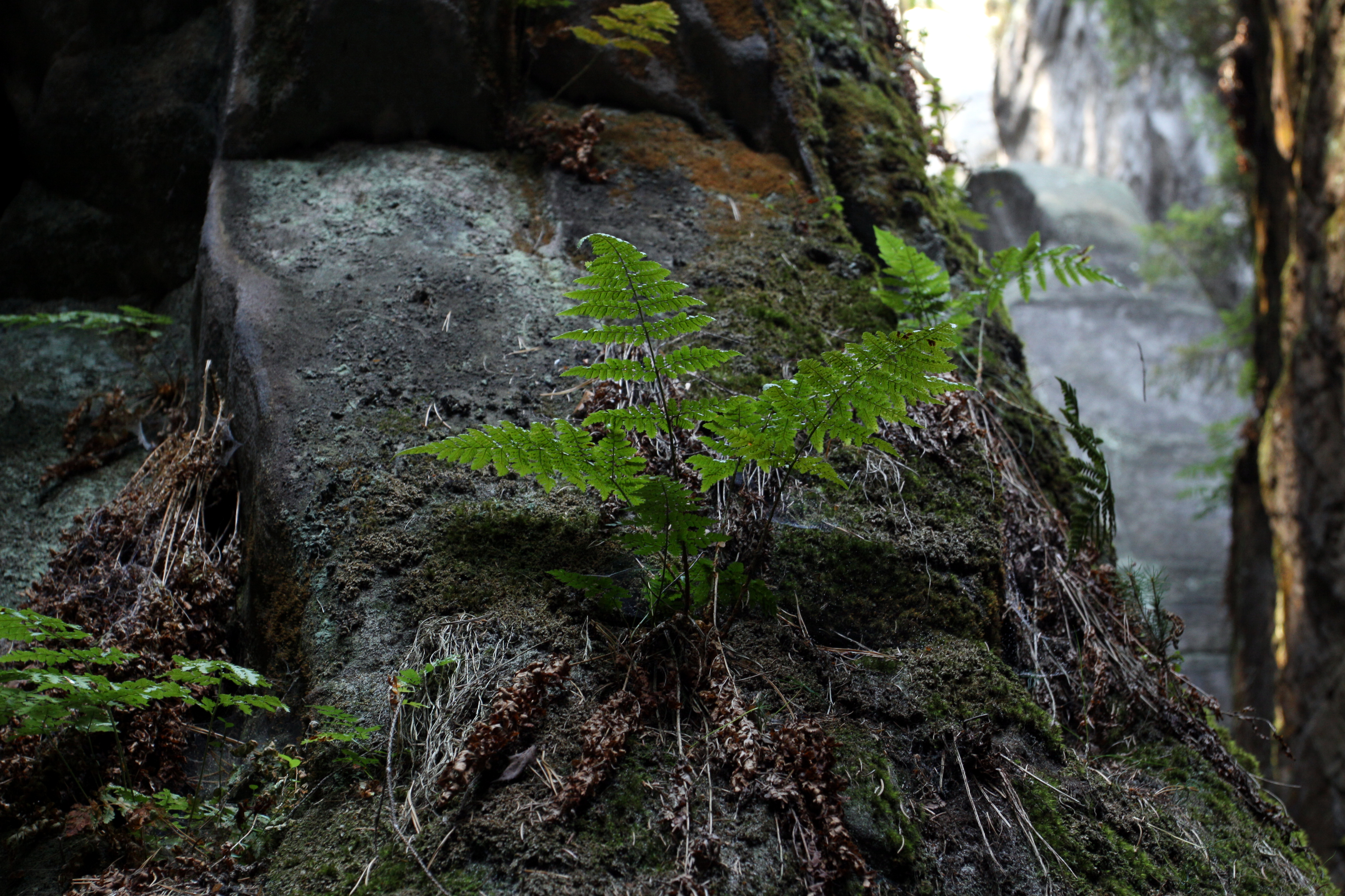 Natural monument Kočičí skály near Žďár nad Metují in Náchod District, Czech Republic